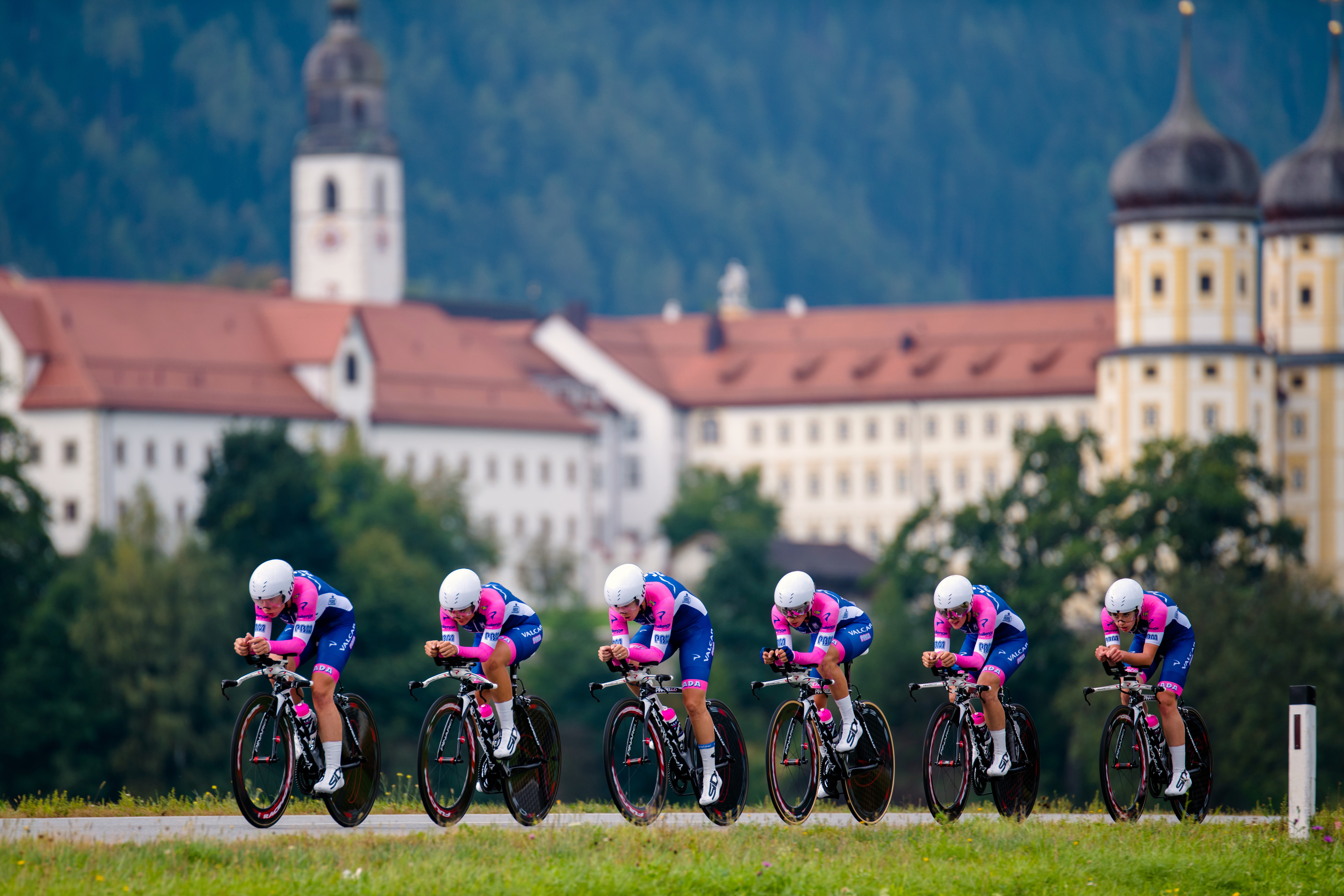 2018 UCI Road World Championships Innsbruck/Tirol Women's Team Time Trial. Picture shows: Team Valcar PBM